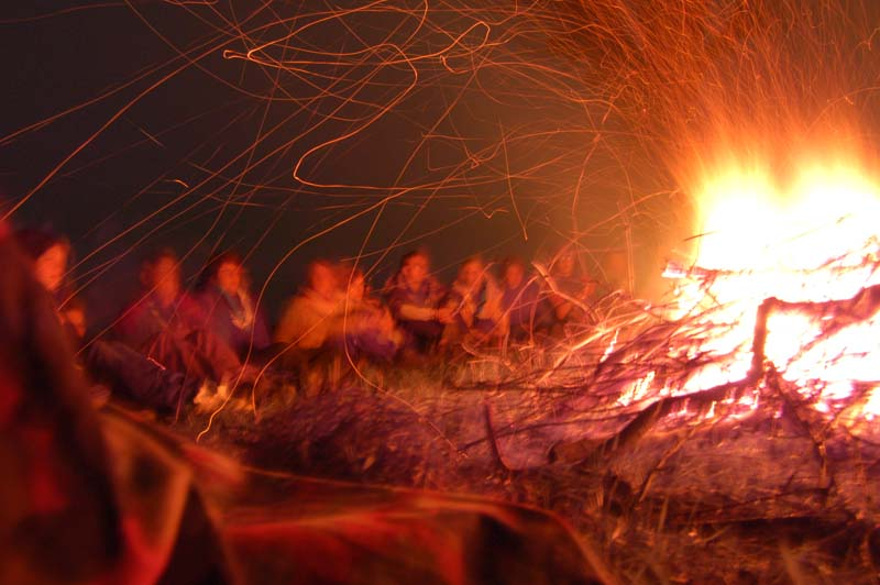 Scouts around a campfire